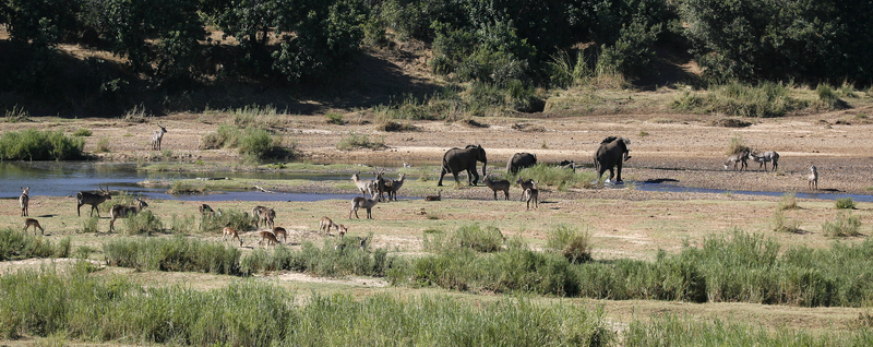 A view on the Letaba River, in the northern Kruger Park, Limpopo province, South Africa